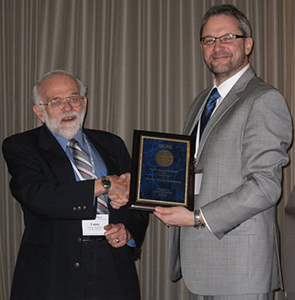 Professor Lanny D. Schmidt receives the Neal R. Amundson Award from Dr. Kurt VandenBussche, President of the International Symposium of Chemical Reaction Engineering (ISCRE).